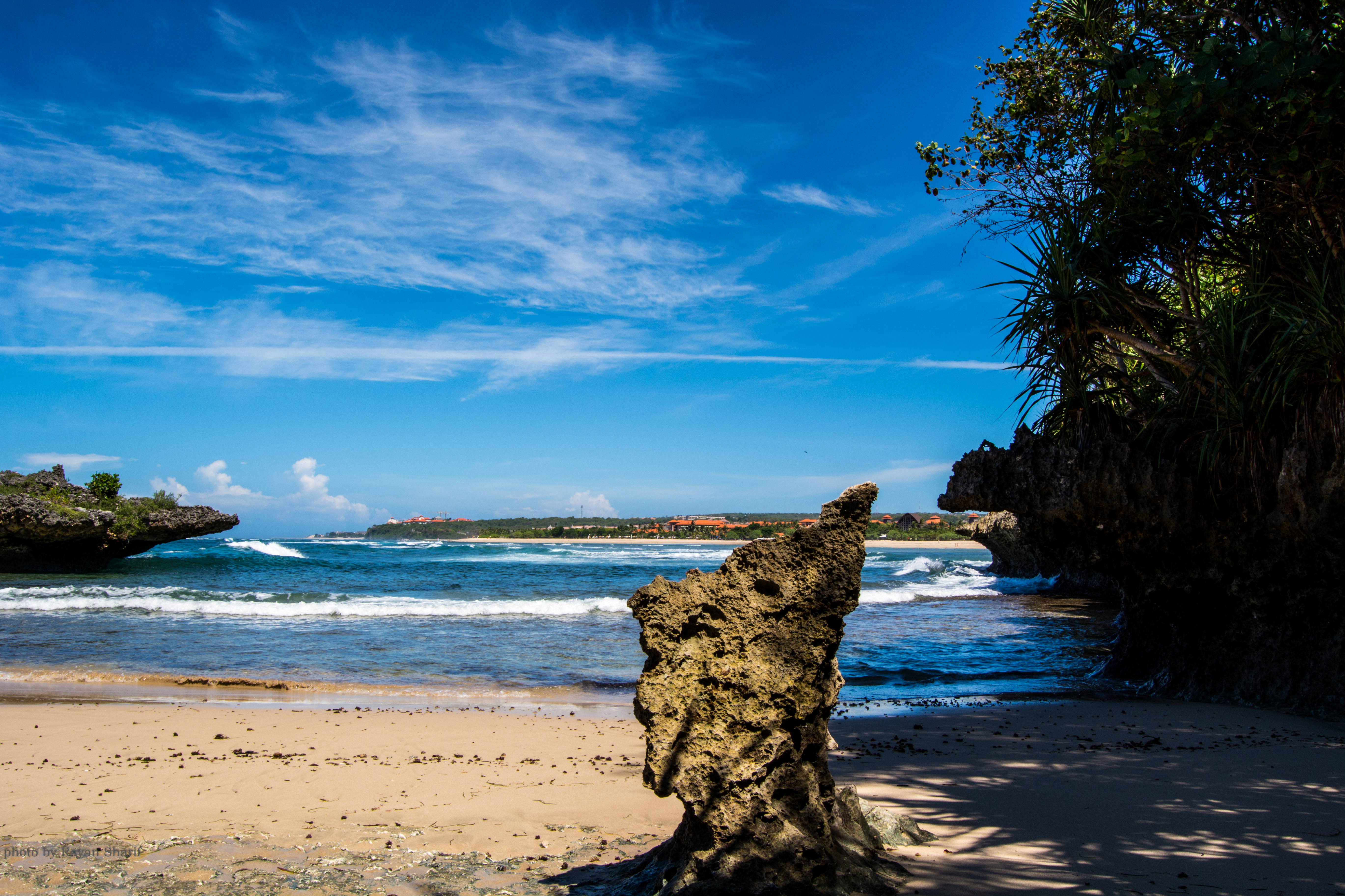 beach with rock, blue sky and golden sands, Nusa Dua Peninsula